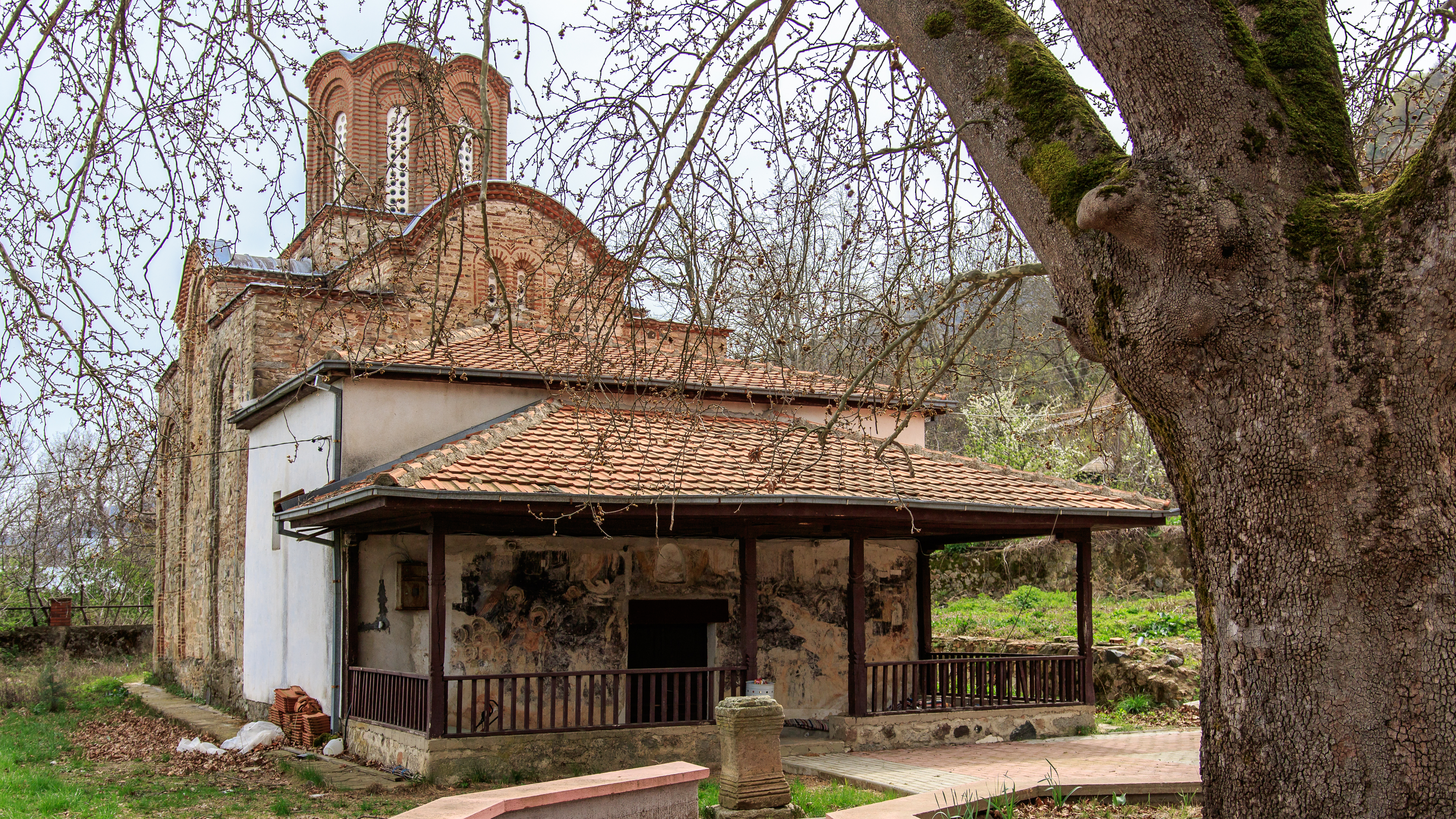 View of the St. Stephen's Church in the village Konče